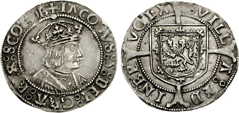 Scotland: James V of Scotland. 1513-1542. AR Groat (2.61 g, 1h). Second coinage. Edinburgh mint. Struck 1526-1539. IΛCOBVS S DEI GRΛ REX SCOTOR, crowned bust right, crown with double arches; double annulet stops VILLΛ EDINBRVGhX, pointed royal shield over cross fourchée; double annulet stops. Burns fig. 725; SCBI 35 (Ashmolean & Hunterian), 910-2; SCBC 5376. Superb EF, toned. An exceptional portrait. Ex Lucien LaRiviere Collection (Spink 179, 29 March 2006), lot 88; Sotheby’s (13 February 1986), lot 254.